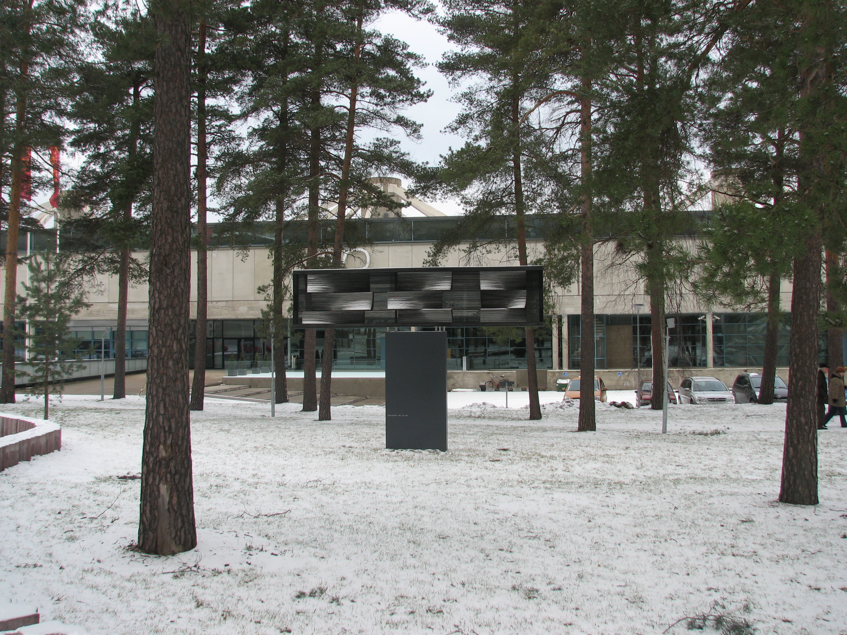 EMMA, the Espoo Museum of Modern Art, as seen from the outside.